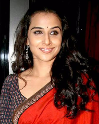 Balan at Abhishek and Vidya promote Paa with Bajaj Allianz